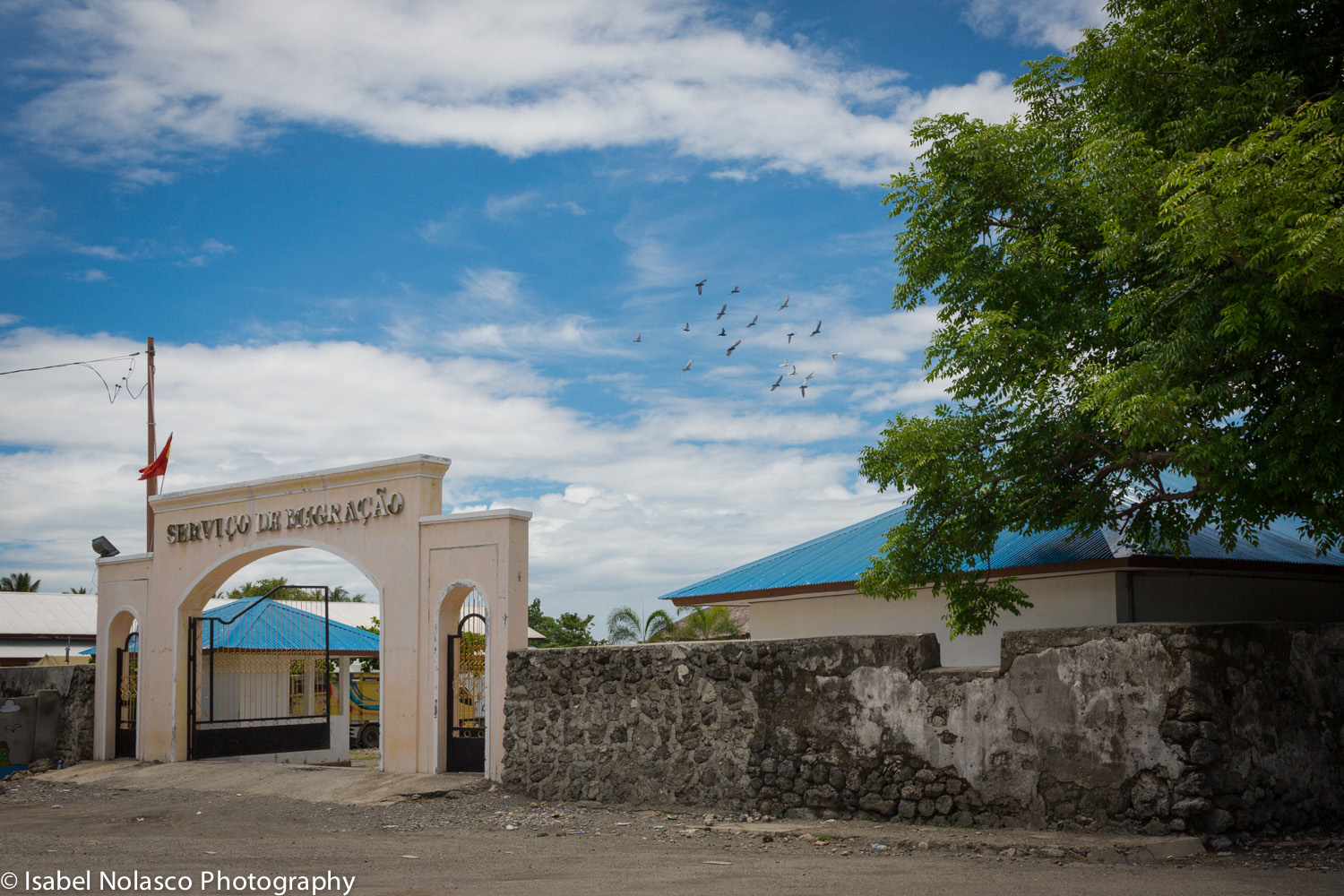 Batugade